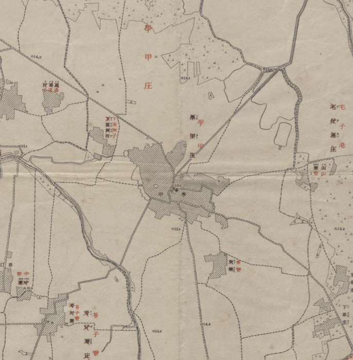 Hakkah, Tailam